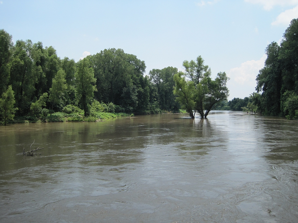 Reverie, Tennessee. TN/AR stateline at the old course of the Mississippi River. View north